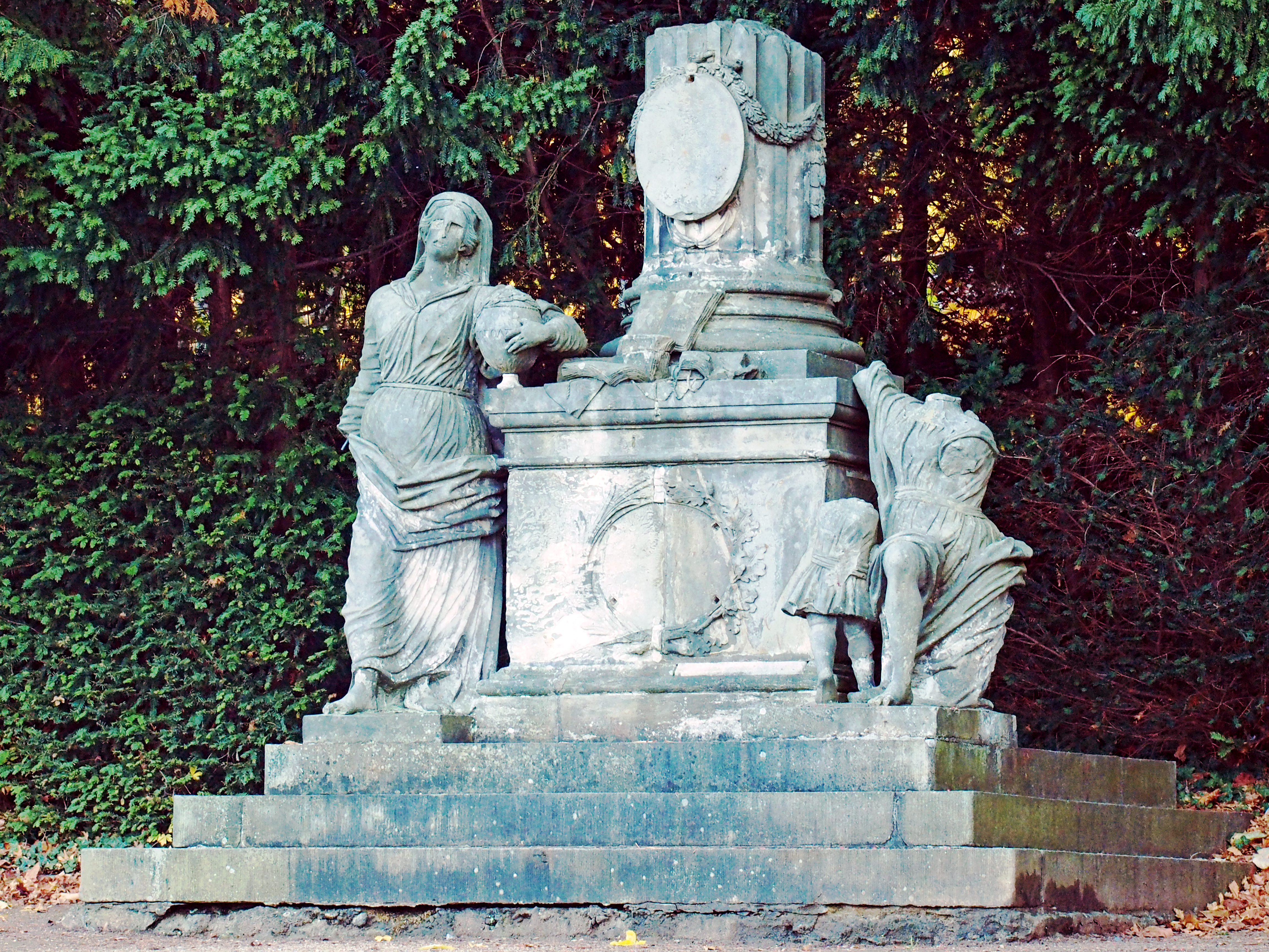 Monument for Duke Maximilian Julius Leopold of Brunswick-Wolfenbüttel